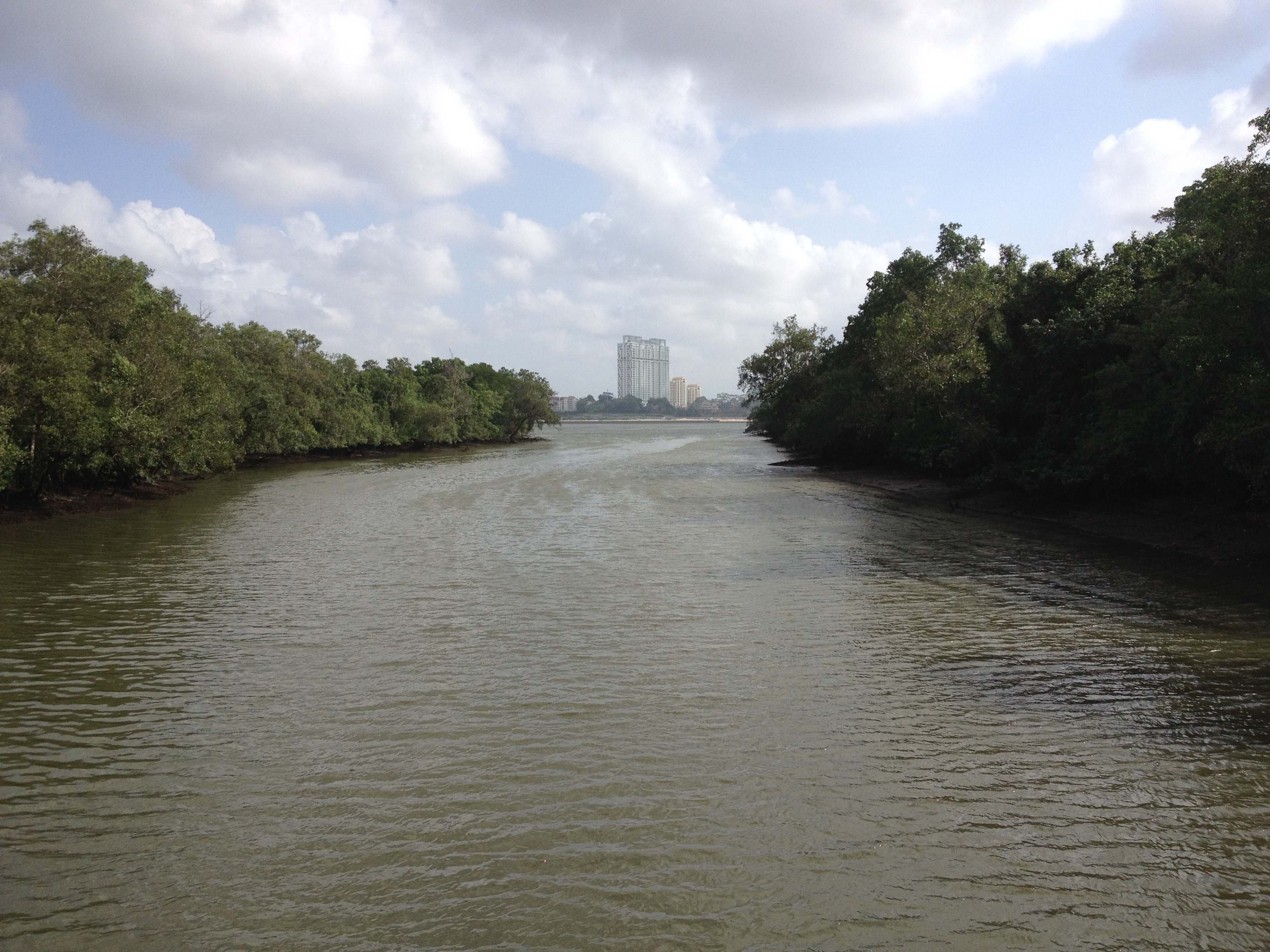 View of Sungei Buloh Wetland Reserve, Singapore from the main bridge. Note the proximity to Malaysia - The building in the far distance is actually in Johor Bahru, Malaysia.